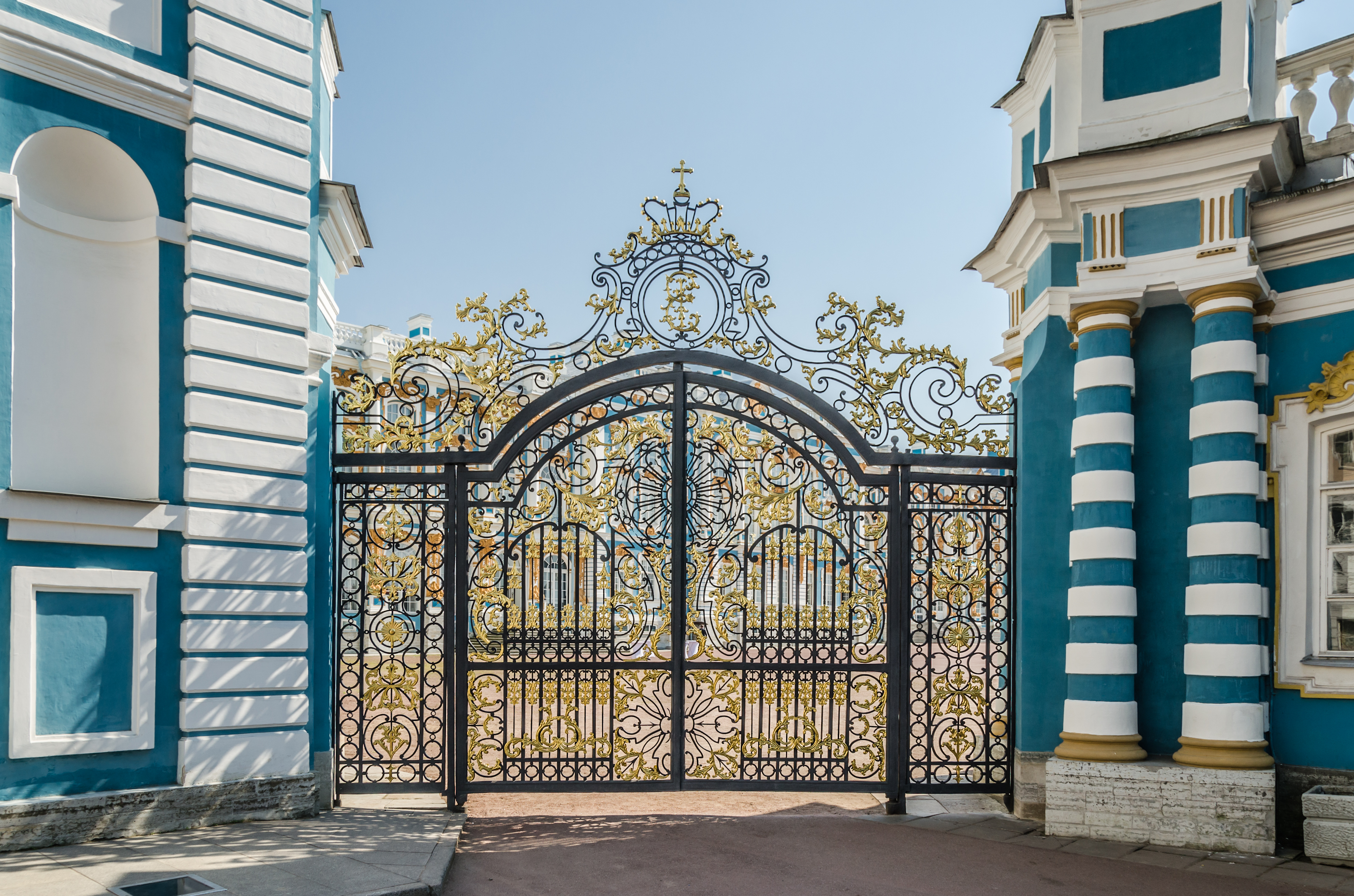 Lateral Gates of Catherine Palace, Tsarskoe Selo. Saint Petersburg